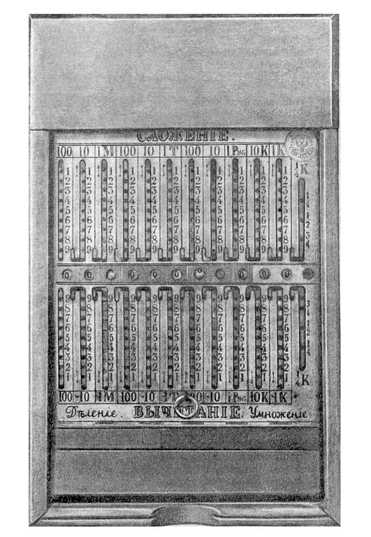 Old Russian addiator